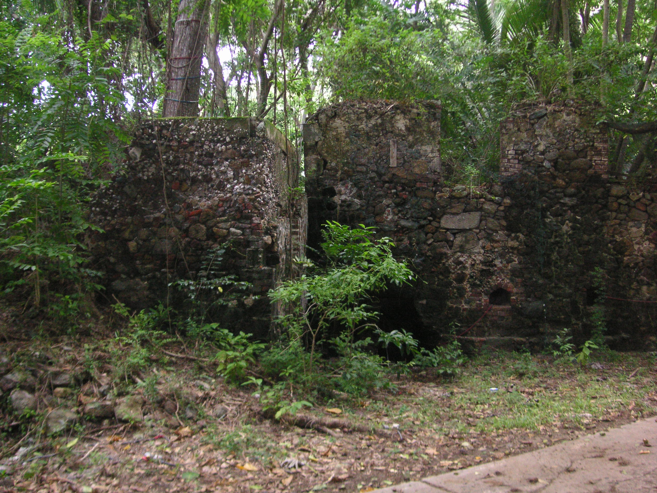 The Sugar Mill, Brewer's Bay, Tortola, British Virgin Islands Photograph by Colin Riegels (2006)